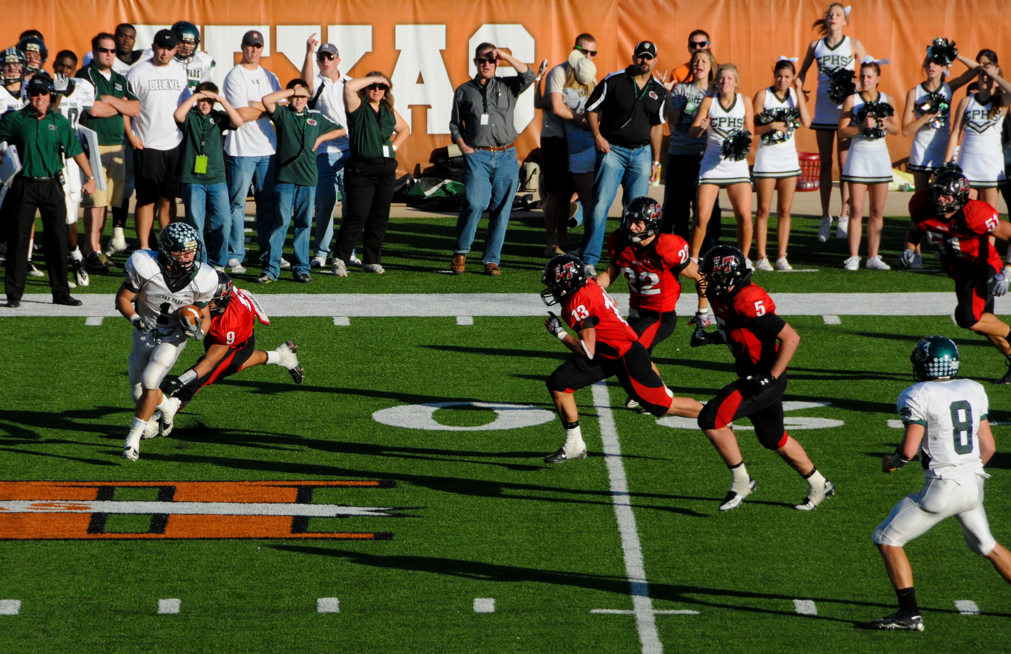 A football game of the Lake Travis Cavaliers vs the Cedar Park Timberwolves at DKR Memorial stadium in 2010.